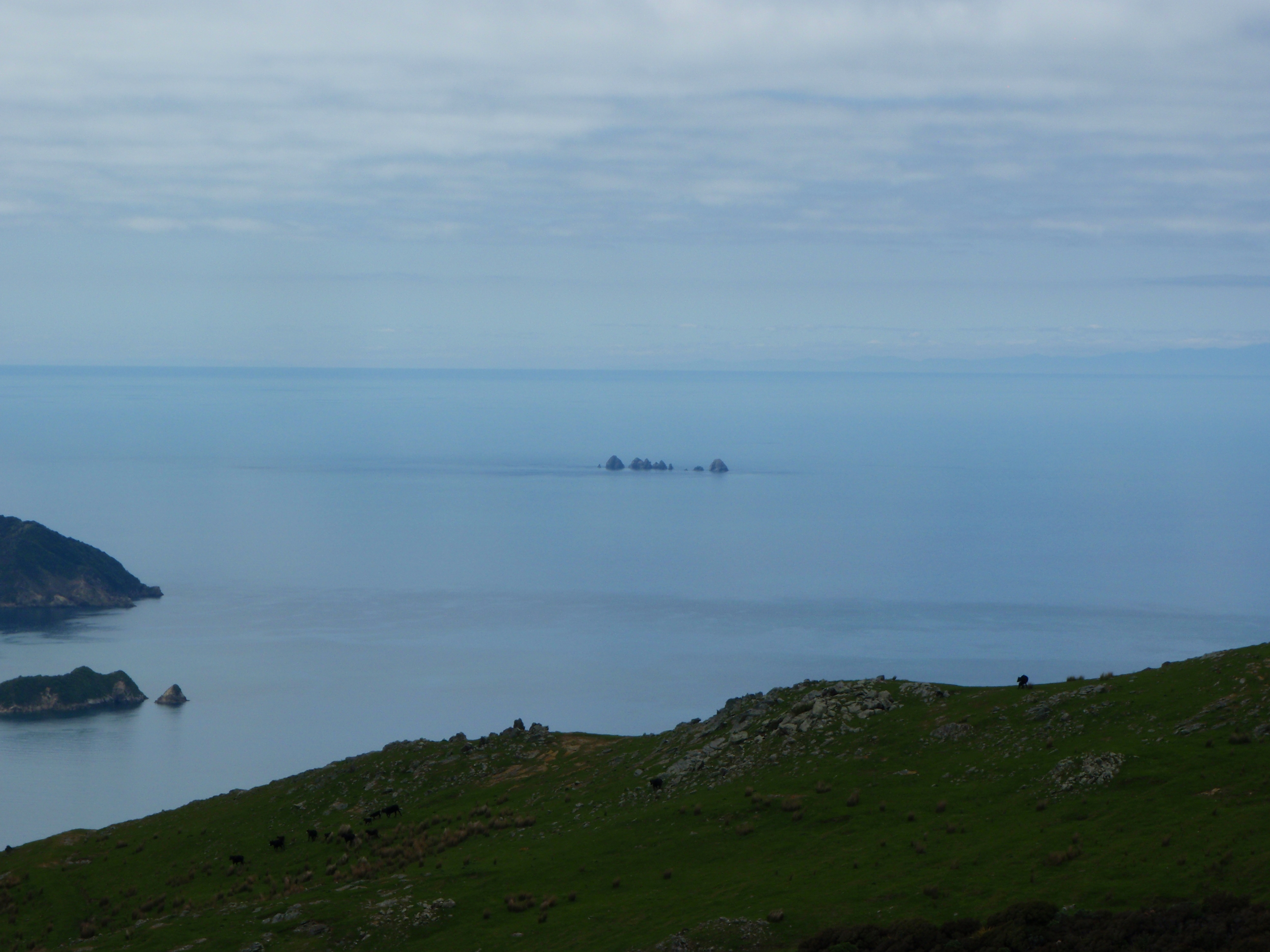 Jag Rocks (Nga Kiore) Central & Rangitoto Islands on the LHS - as seen from D'Urville Island ( Foreground).